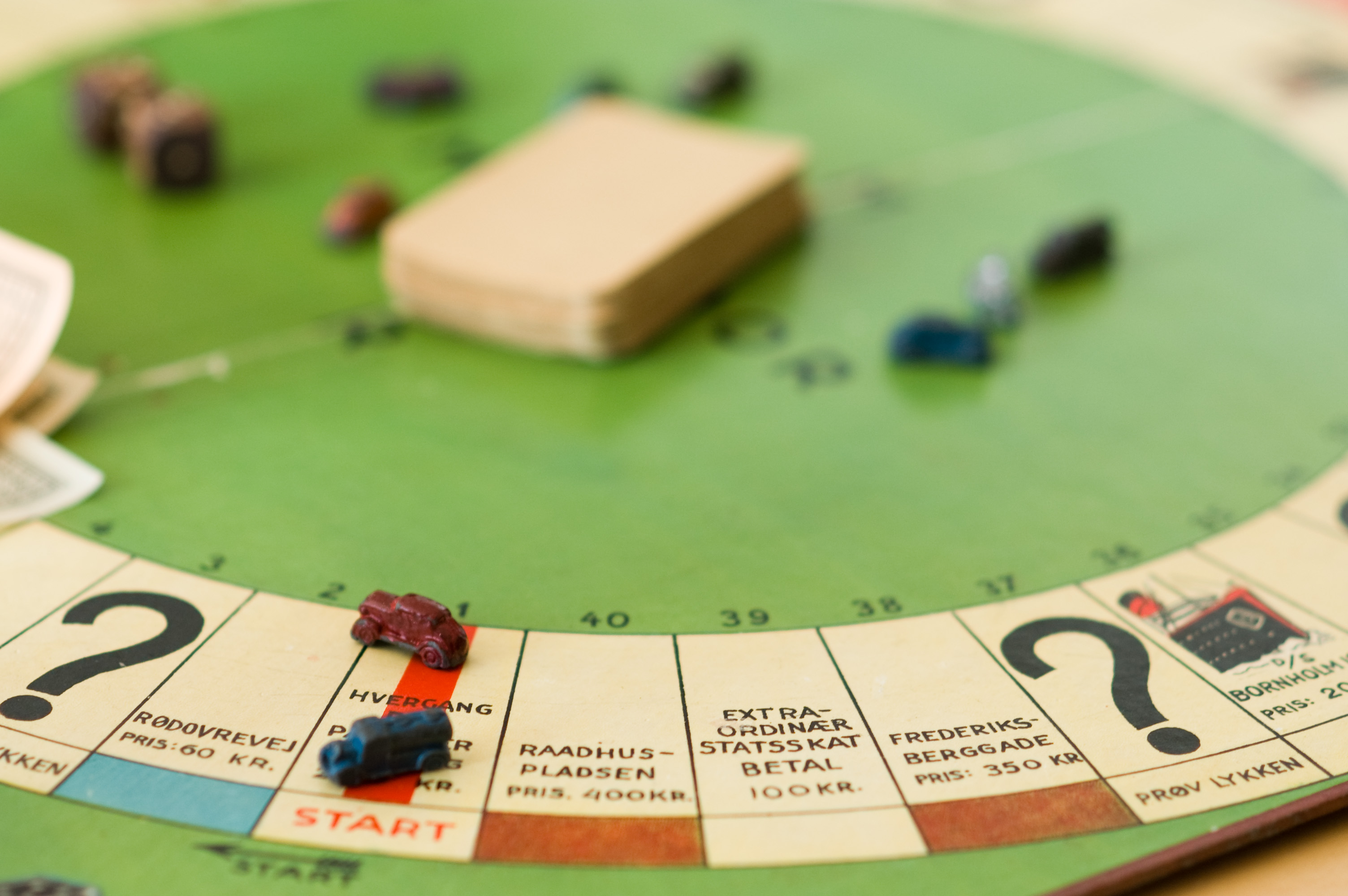 In Denmark, a competitor to the more internationally known Monopoly by the Parker Bros. (owned by Hasbro) is called Matador, rights owned by by Brio. This edition is made by Drechsler, I am not sure if that's the case for all Matador games. There are only small differences between the two, a fun one being that the Matador fields are in circle instead of a square. If you can read a little bit of danish, you can read more here